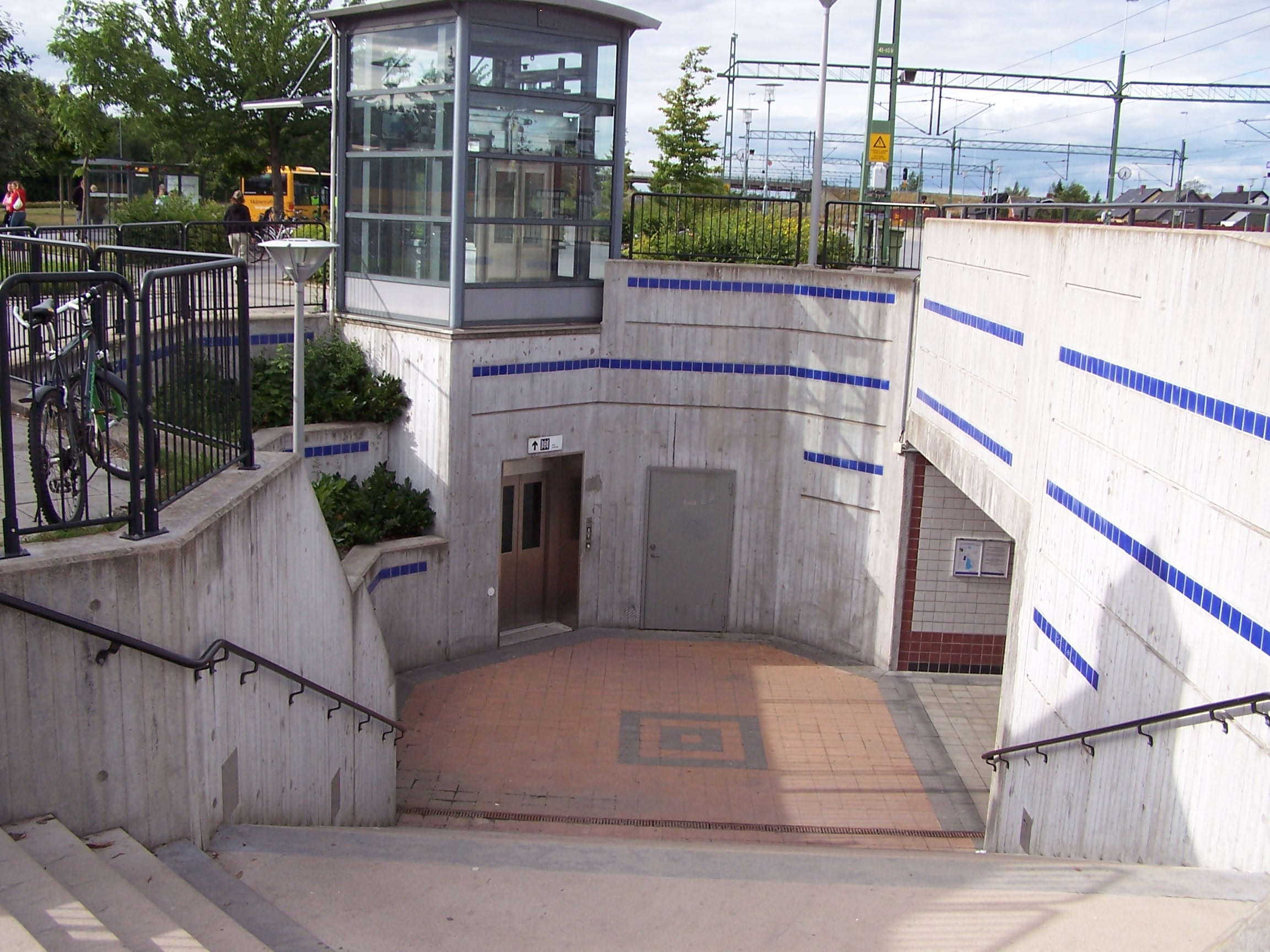 Kävlinge railway station/railroad station, Sweden.